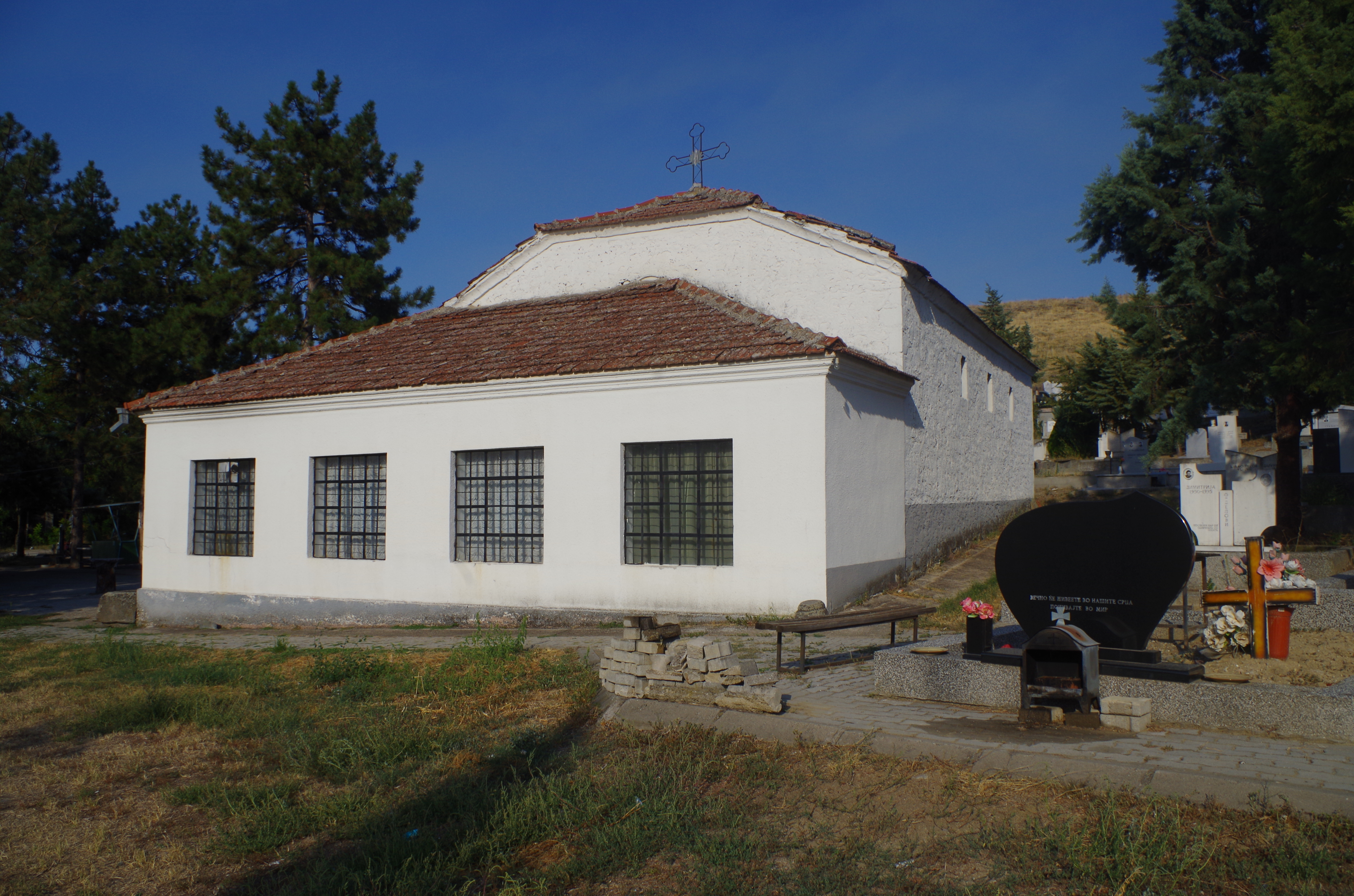 Dormition of the Theotokos Church in the village of Marena